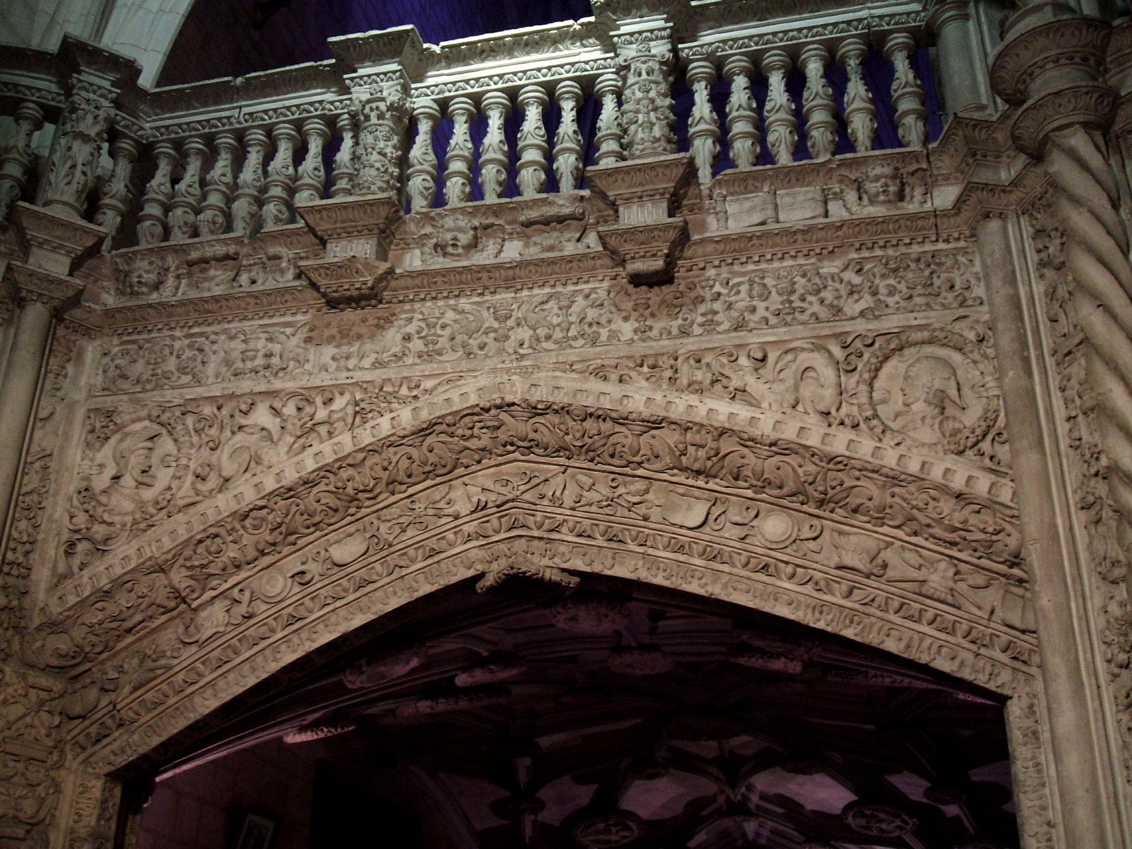 Trabajo de chambrana plateresca en el coro de la iglesia de Santa María de Salvatierra/Agurain (Álava, País Vasco, España)